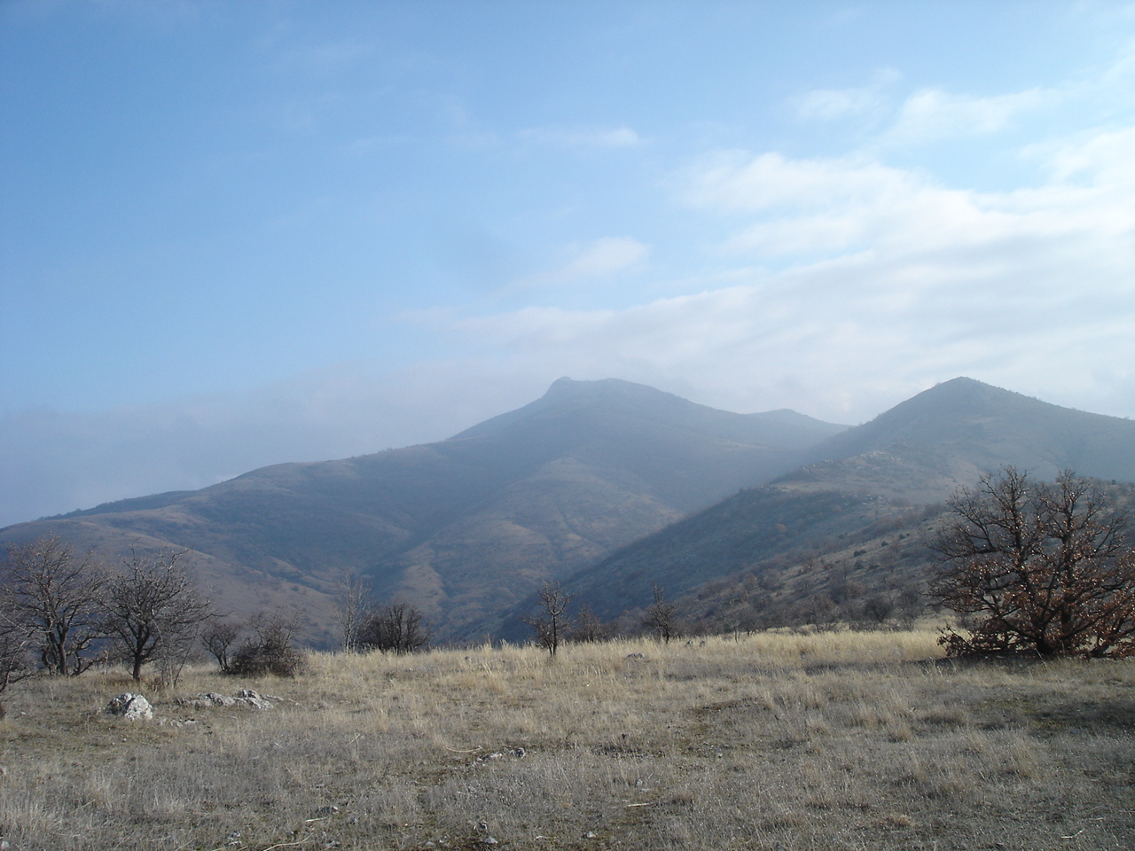 Klepa Mountain, Macedonia